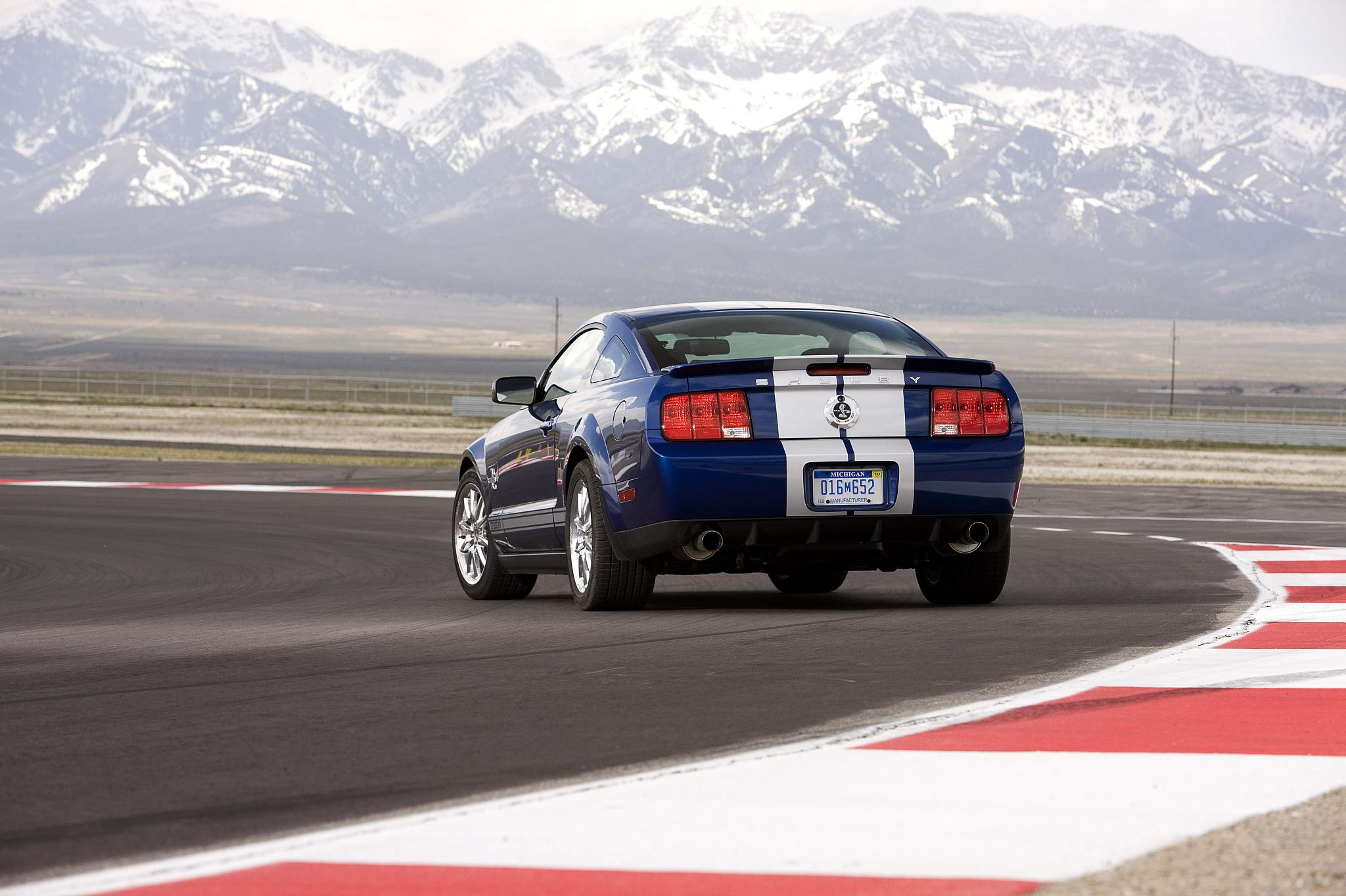 2008 Ford Shelby GT500KR: The 2008 Ford Shelby GT500KR is the new "King of the Road" the most powerful production Mustang ever produced, thanks to a 540-hp supercharged 5.4-liter V-8 with 510 lb.-ft. of torque. (05/09/08)